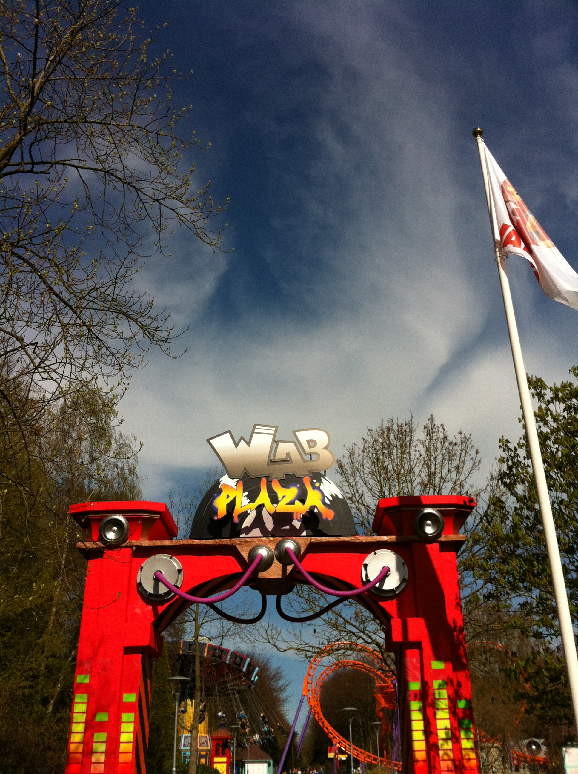 WAB Plaza at Walibi Holland